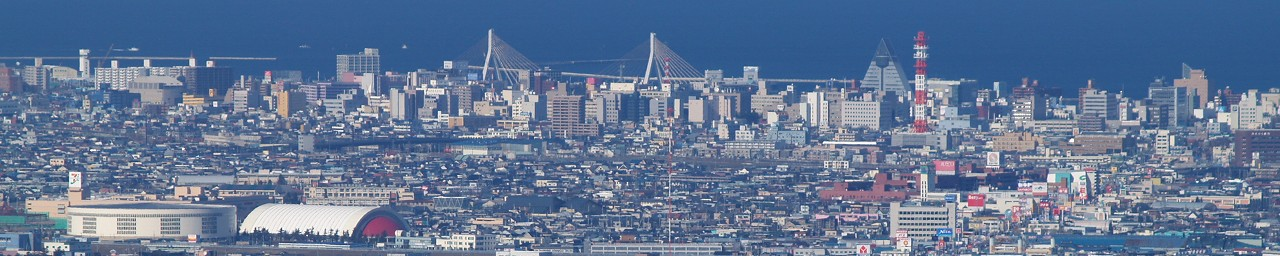 Panoramic view of Aomori city